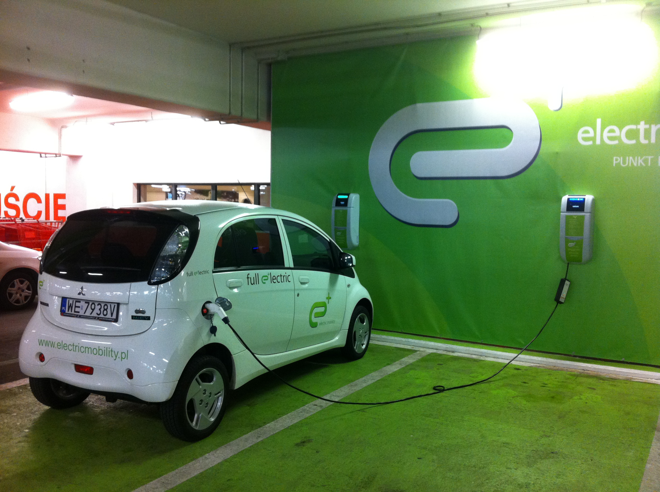 Electric automobile recharging station at the Arkadia Center shopping center's garage in Warsaw, Poland. Rear view and connected to wall.